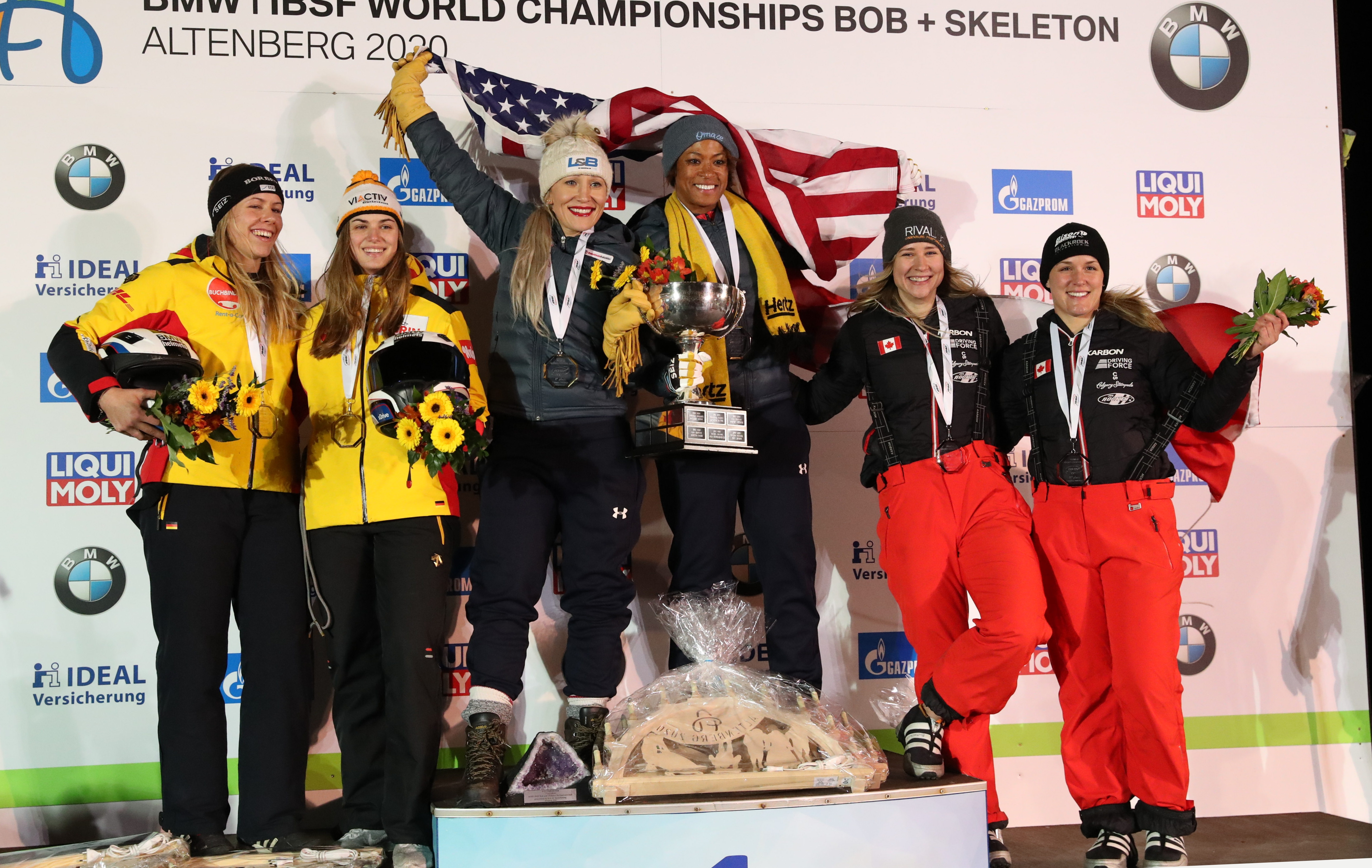 Medal Ceremony at the 2-woman bobsleigh at the Bobsleigh and Skeleton World Championships 2020 in Altenberg